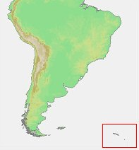 South Georgia islands